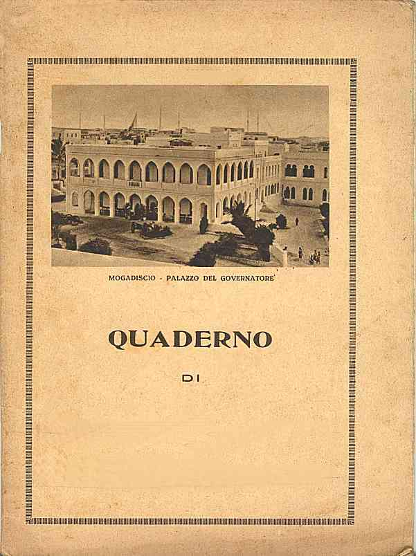 Handbook of Italian primary school in 1931 - cover reproducing Governor's Palace in Mogadishu